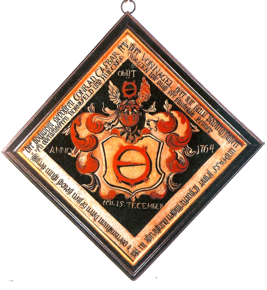 Heraldic "hatchment"